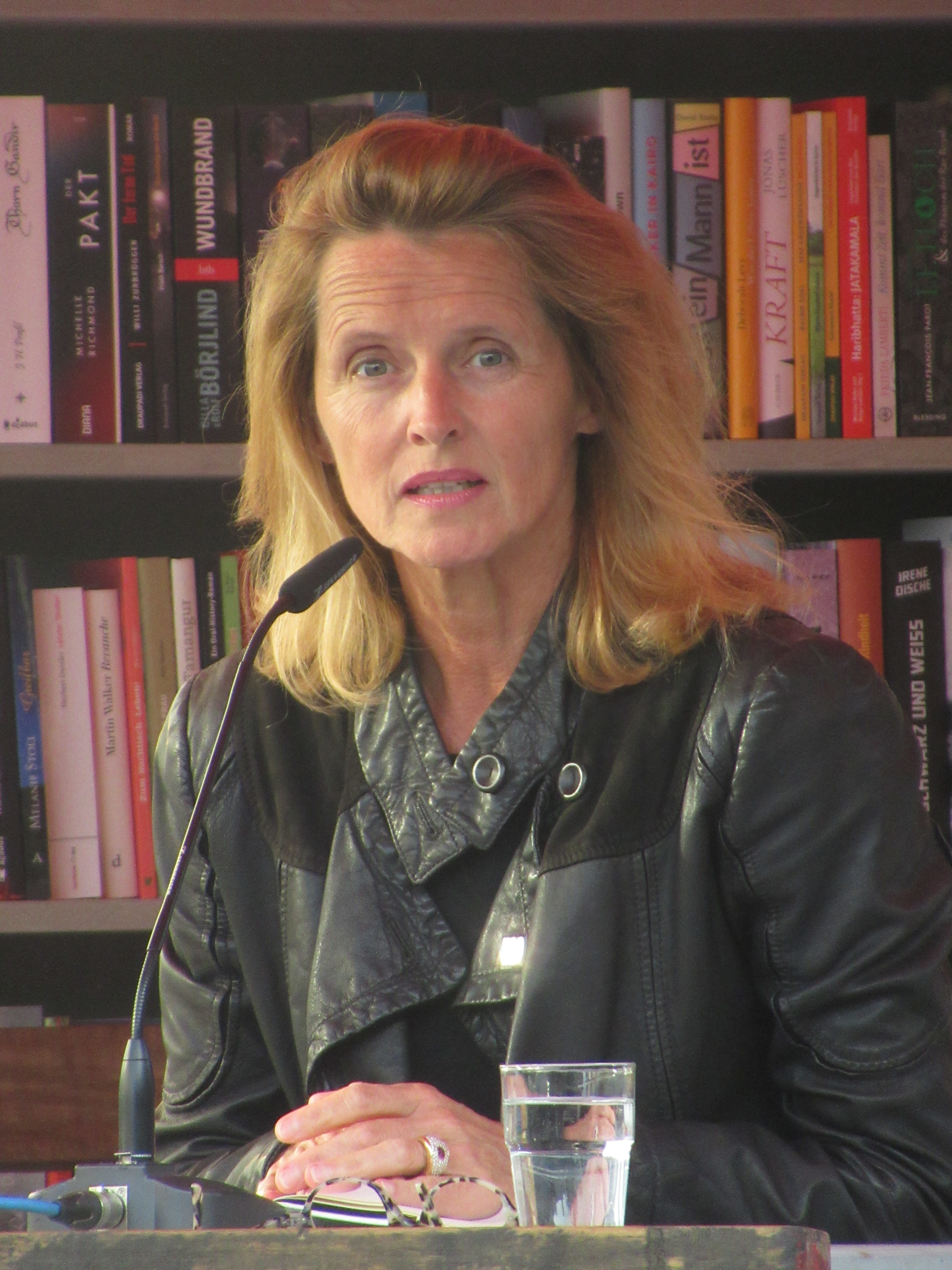 Jana Revedin at StadtLesen 2019 in Dessau-Roßlau